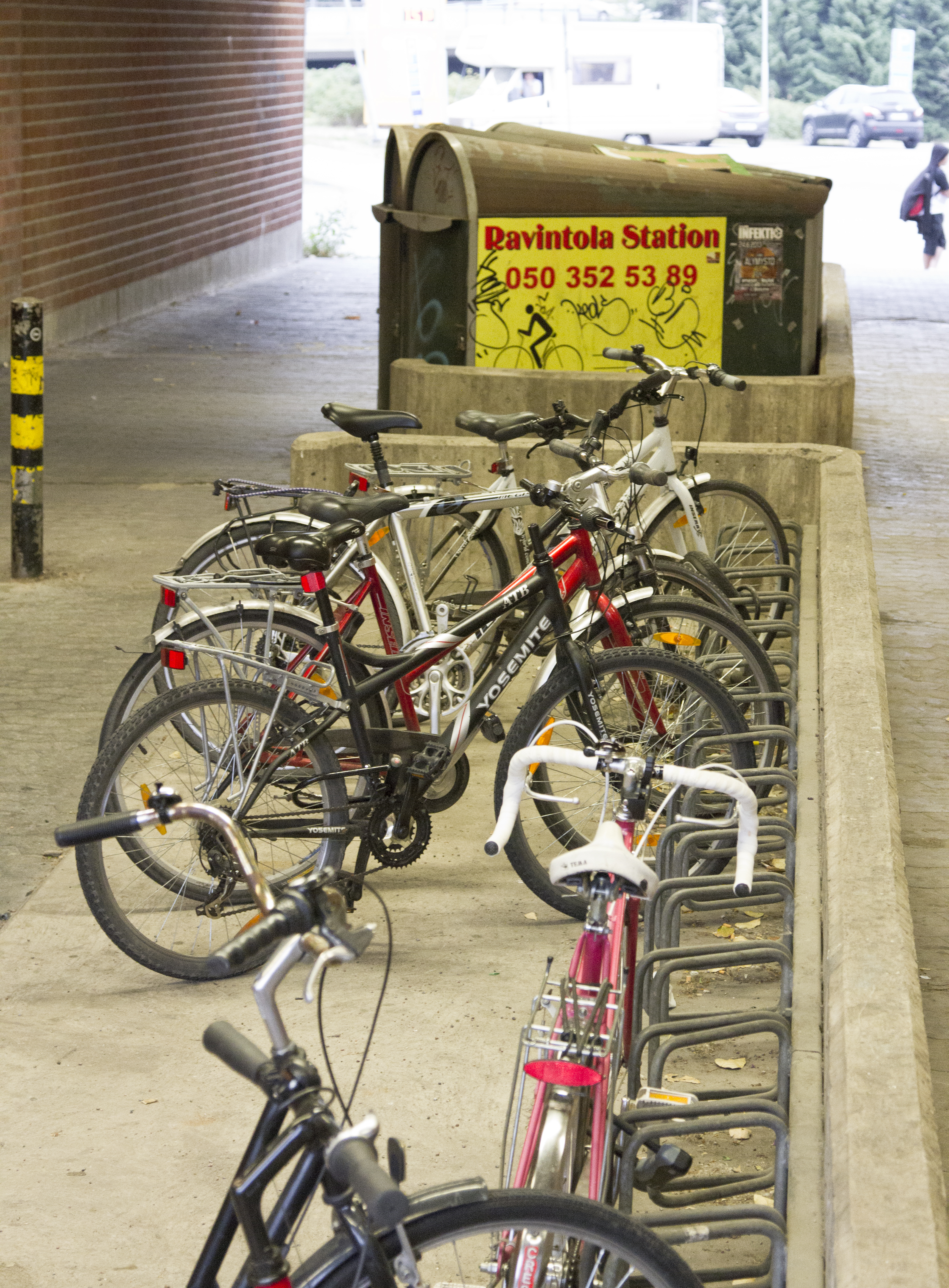 Bicycles Pukinmäki railway station